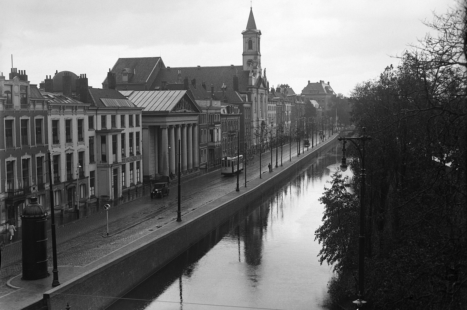 Prinsessegracht (The Hague) with the Decorative Arts Museum, the Royal Academy of Fine Arts and the Boskant Church. During a bombardment in 1943, all of these buildings where destroyed.